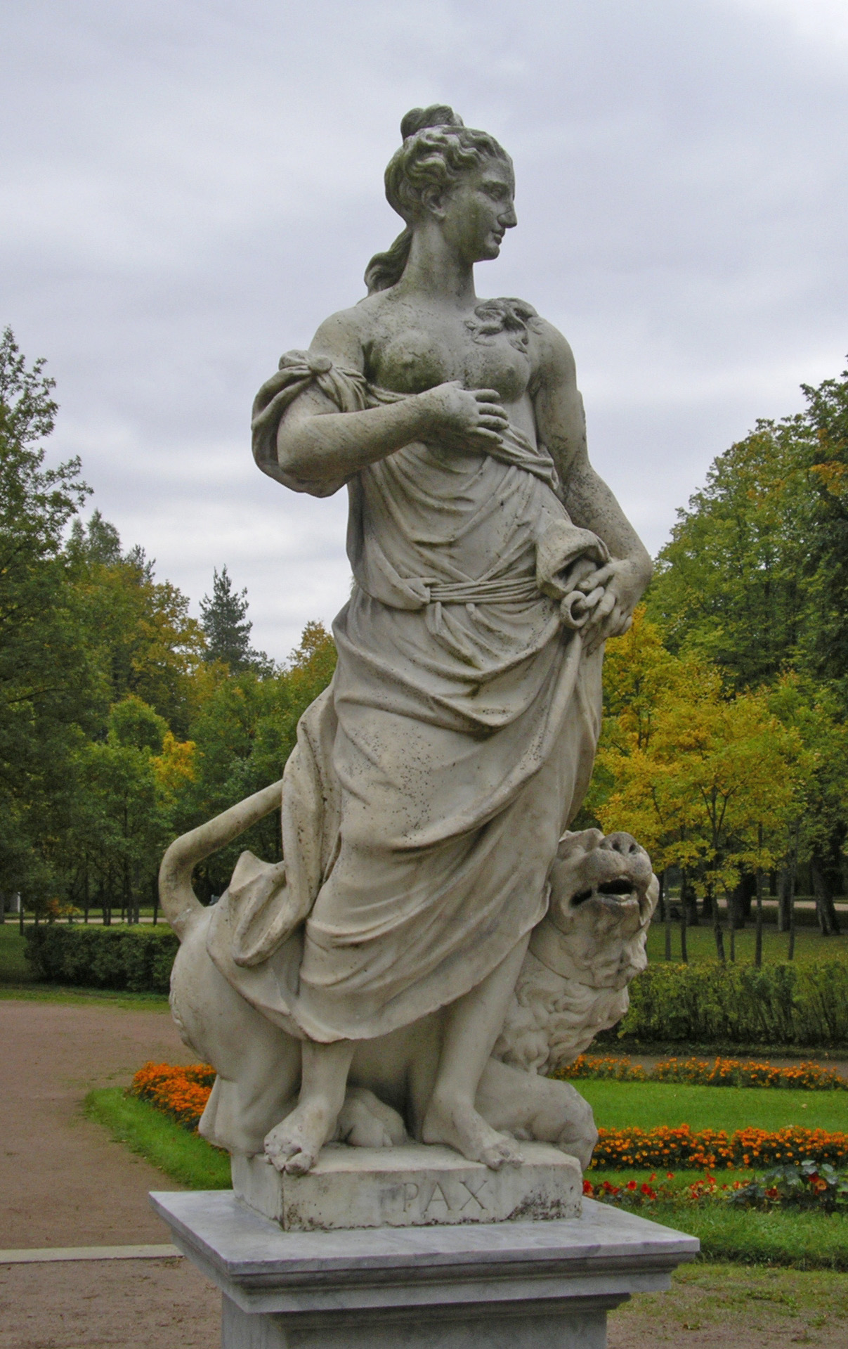 Statue of Pax in Pavlovsk Garden. St Petersburg, Russia. Sculptor: Pietro Baratta.